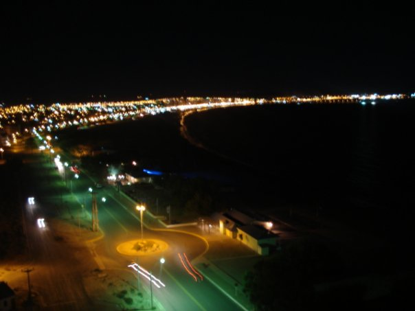 Puerto Madryn, Chubut, Argentina